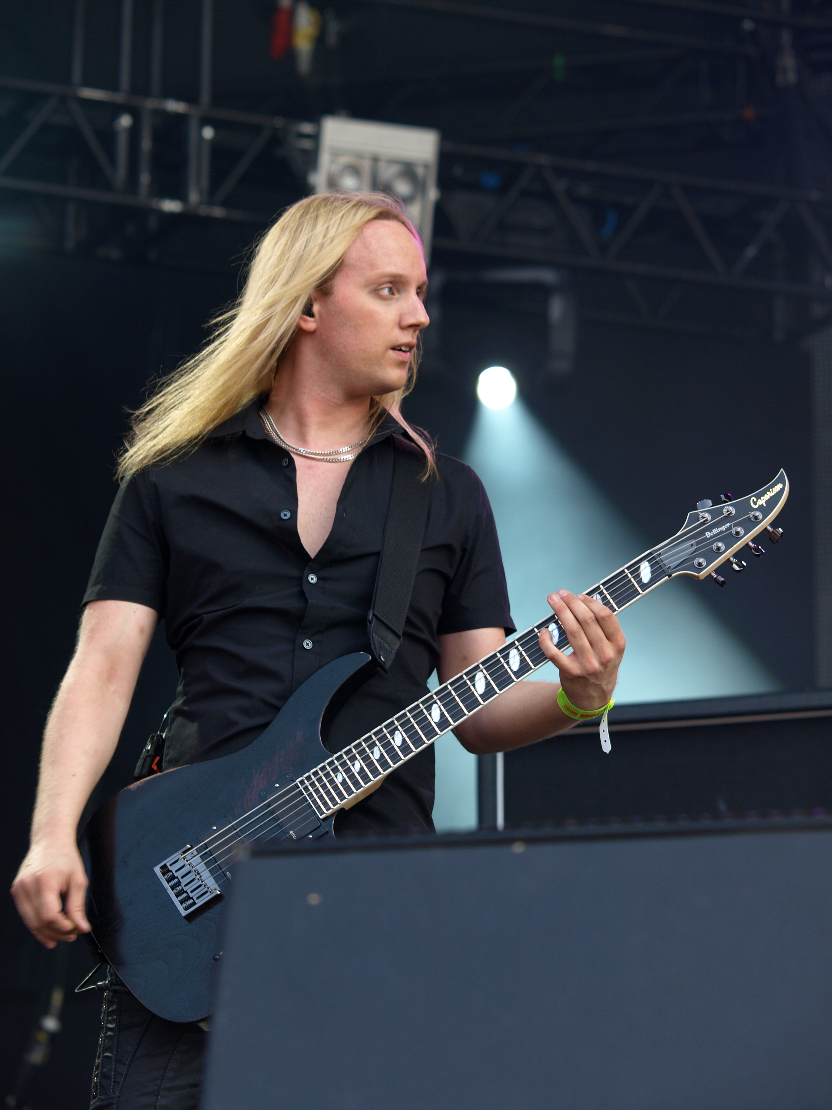 Swedish band Amaranthe at Tuska Open Air 2013